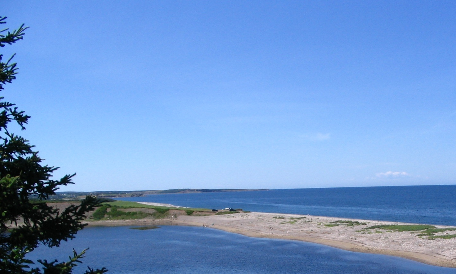 The mouth of the Chéticamp river, in Chéticamp, Nova Scotia.